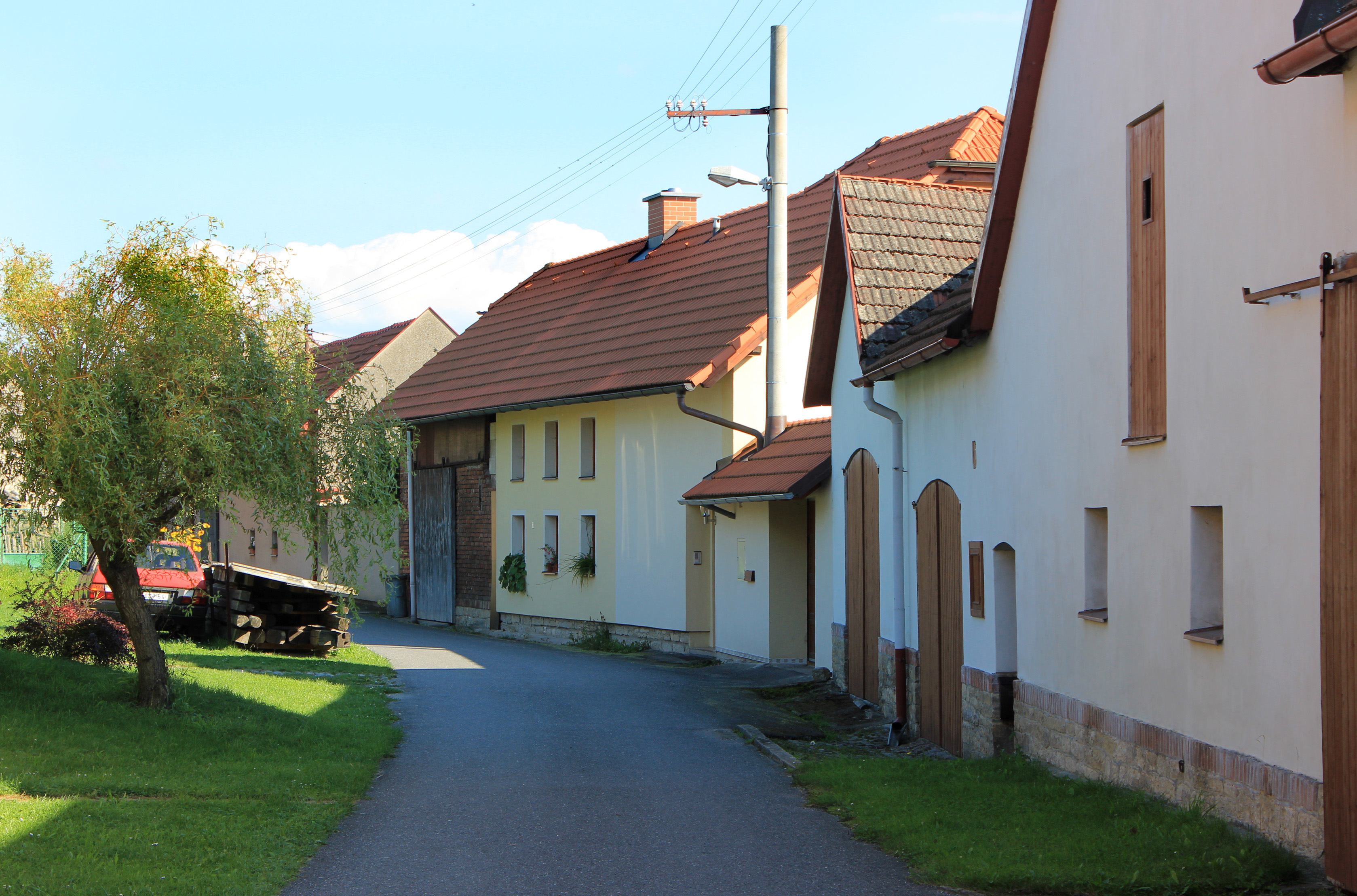 Houses No. 7 and 8 in Řídký, Czech Republic.